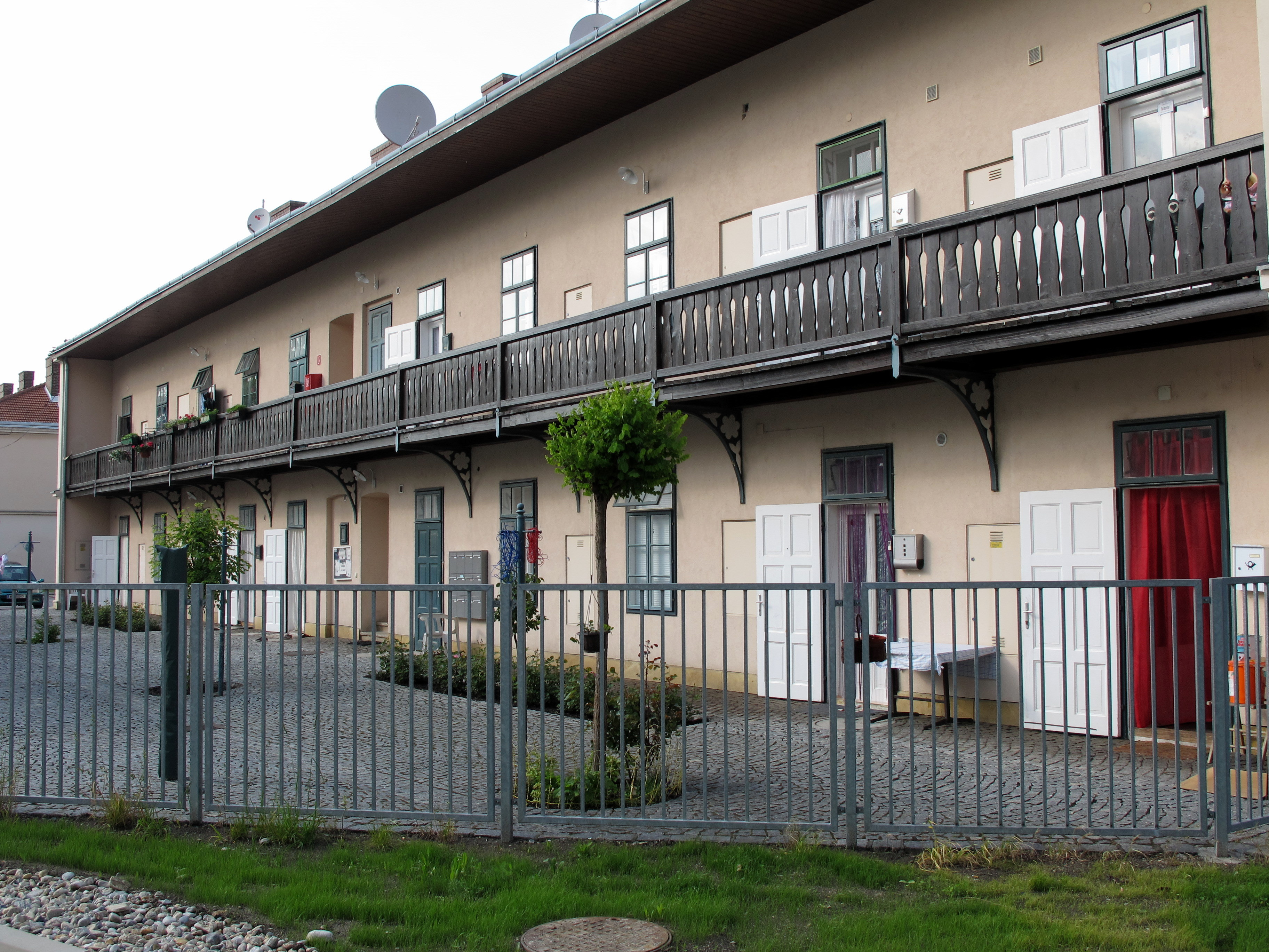 Former working class neighborhood in Marienthal Gramatneusiedl / District Wien-Umgebung / Lower Austria / Austria / EU, where Paul Lazarsfeld's study The unemployed of Marienthal conducted. The apartments were not on a staircase, but from the outside on a balcony (Pawlatschen) available. On the roof there are satellite dishes. The settlement was restored several years ago.